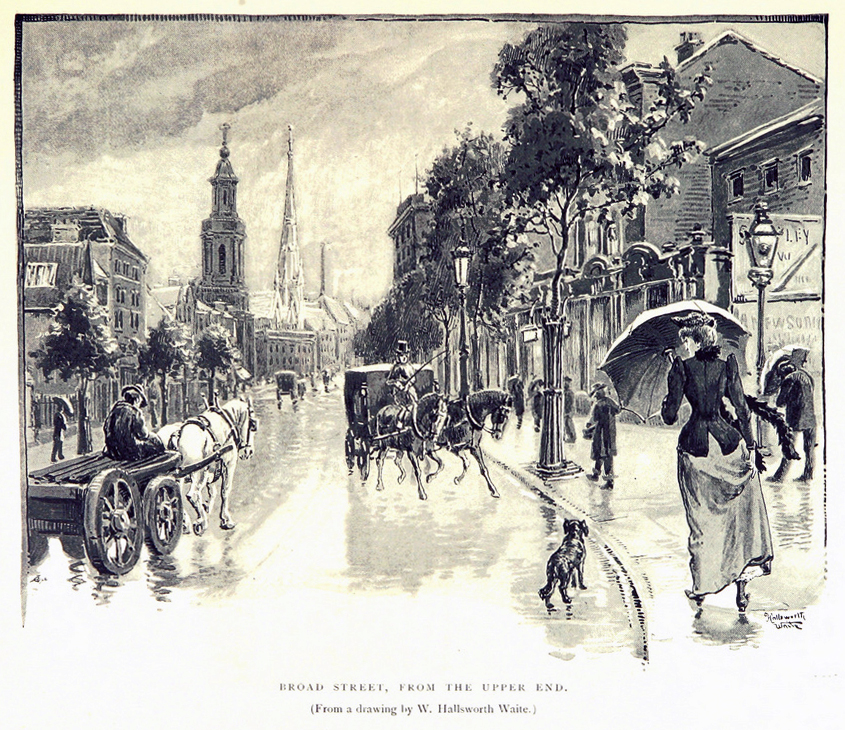 Image extracted from page of The Making of Birmingham: being a history of the rise and growth of the Midland metropolis', by DENT, Robert Kirkup. Original held and digitised by the British Library. Note: The colours, contrast and appearance of these illustrations are unlikely to be true to life. They are derived from scanned images that have been enhanced for machine interpretation and have been altered from their originals.